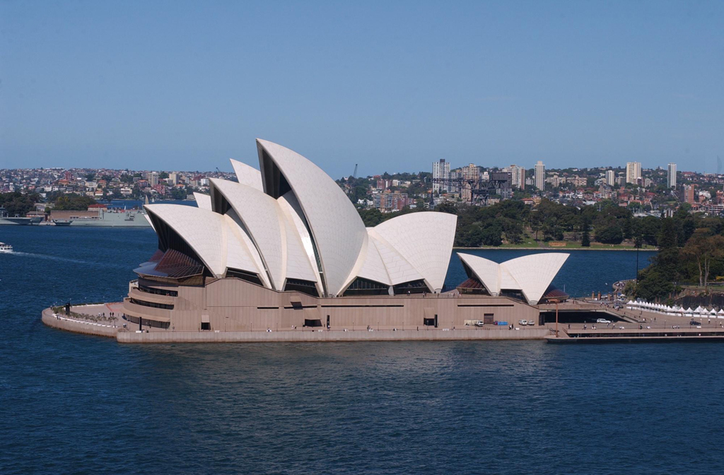 View of the Opera House taken from the nearby harbour bridge.